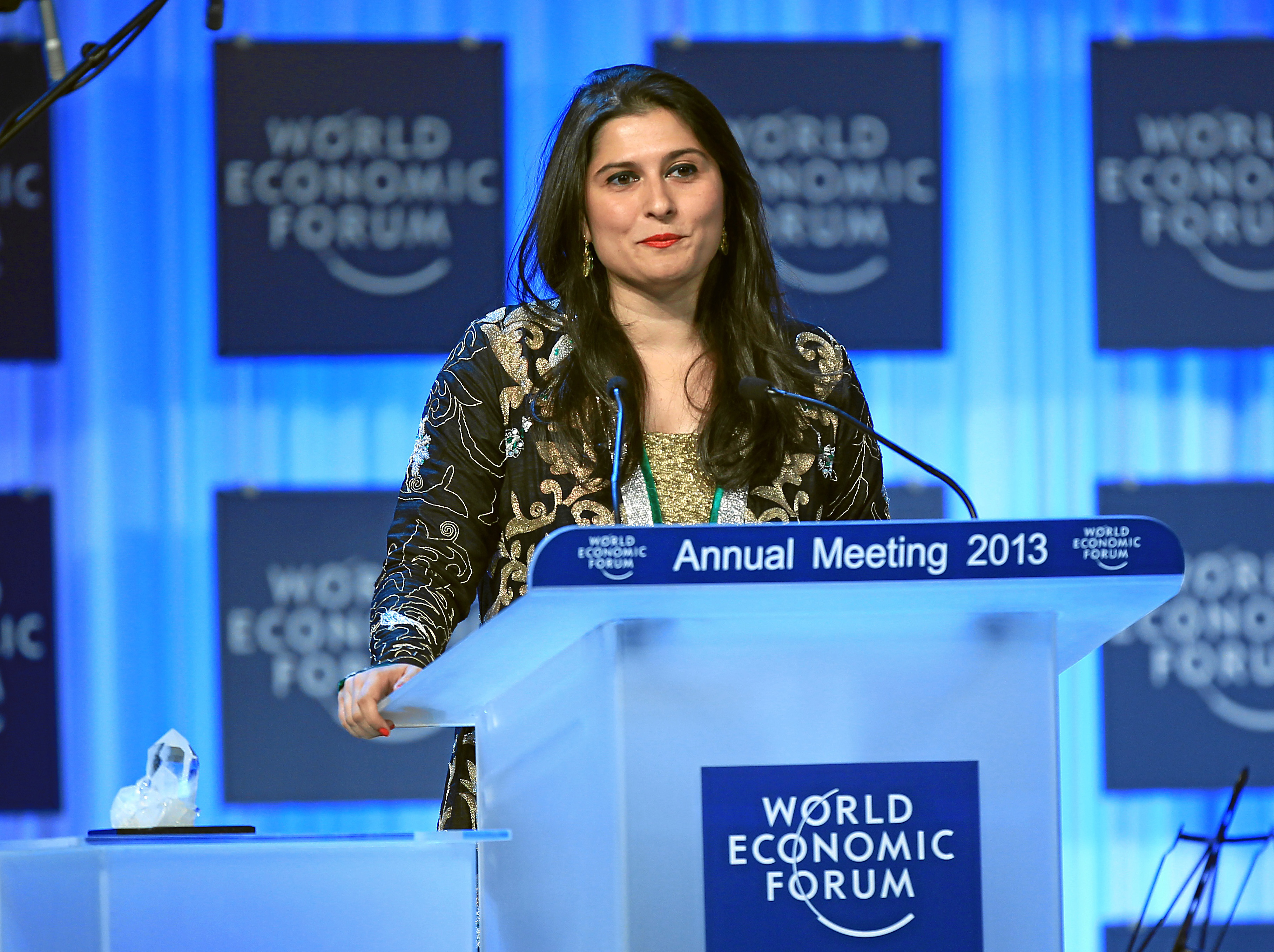 DAVOS/SWITZERLAND, 22JAN13 - Sharmeen Obaid Chinoy, Documentary Filmmaker, SOC Films, Pakistan talks during the Crystal Award Ceremony Exploring Arts in Society' at the Annual Meeting 2013 of the World Economic Forum in Davos, Switzerland, January 22, 2013.. . Copyright by World Economic Forum. . Sebastian Derungs